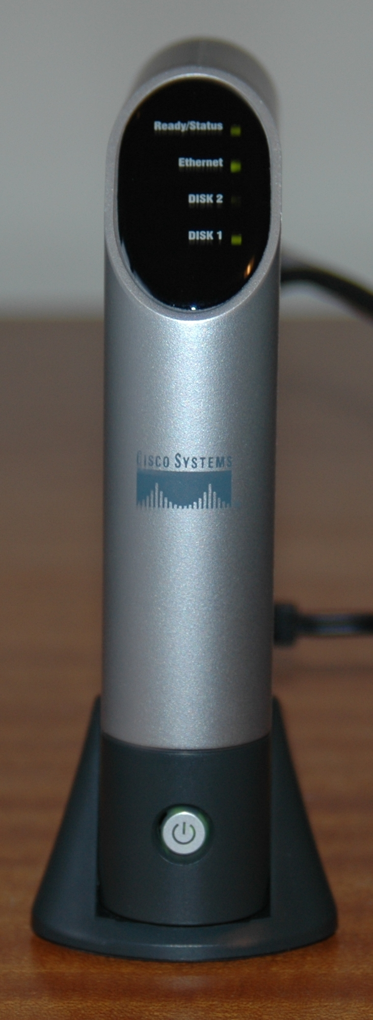 The front of the Linksys NSLU2.